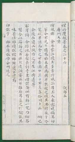 The old Korean book titled Domun daejak among Seoso bubugo authored by Heo Gyun, famous Korean writer and government officer during the mid Joseon dynasty of Korea in 1611. It introduces various local specialties and representative cuisines of 8 regions of Joseon dynasty. This manuscript is held by Gyujanggak library located in Seoul, South Korea